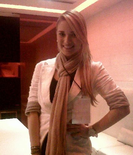 Artist Kimberly Dos Ramos attending a Tycoon Gou meeting in Mexico, DF.